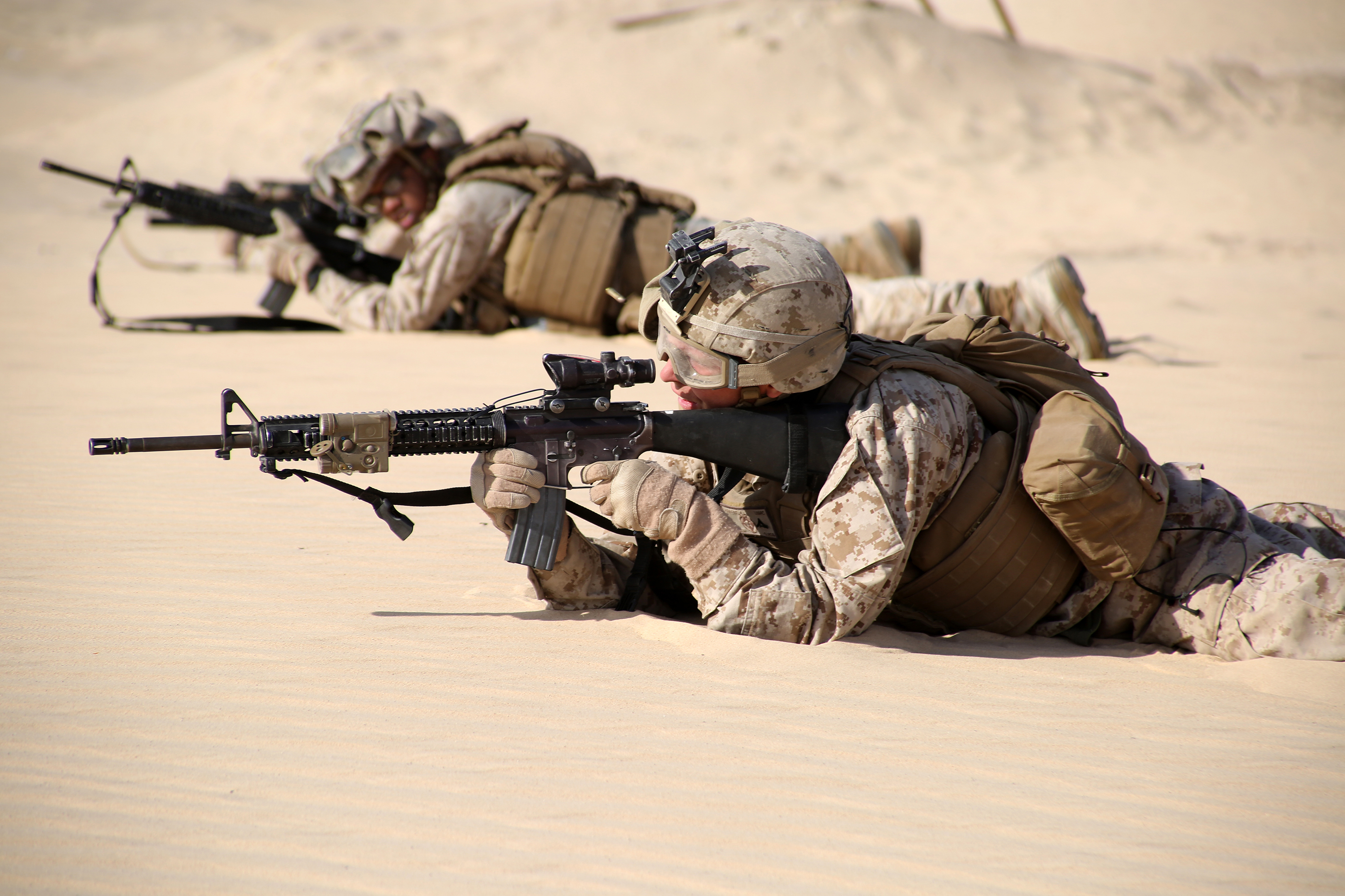 Marines with Kilo Company, Battalion Landing Team 3rd Battalion, 6th Marine Regiment, 24th Marine Expeditionary Unit, provide security as part of a live-fire training event during a scheduled training exercise in the U.S. 5th Fleet area of operations, Feb. 14, 2015. The 24th MEU is conducting theater security cooperation exercises to increase cooperation and interoperability, enhance relationships with existing partners, and promote long-term regional stability within the U.S. 5th Fleet area of operations. The 24th MEU is embarked on the ships of the Iwo Jima Amphibious Ready Group and deployed to maintain regional security in the U.S. 5th Fleet area of operations. (U.S. Marine Corps photo by Sgt. Devin Nichols/Released)